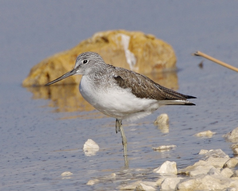 Common Greenshank Tringa nebularia لأسم العربى: طيطوى أخضر الساق ID features: "Large wader (compare with little stint ), long slightly upturned bill with pale base. Winter plumage: Grey back with feathers having fine black line inside white margin - "Lim Kim Seng & Dana Gardner" El Fayoum, Egypt